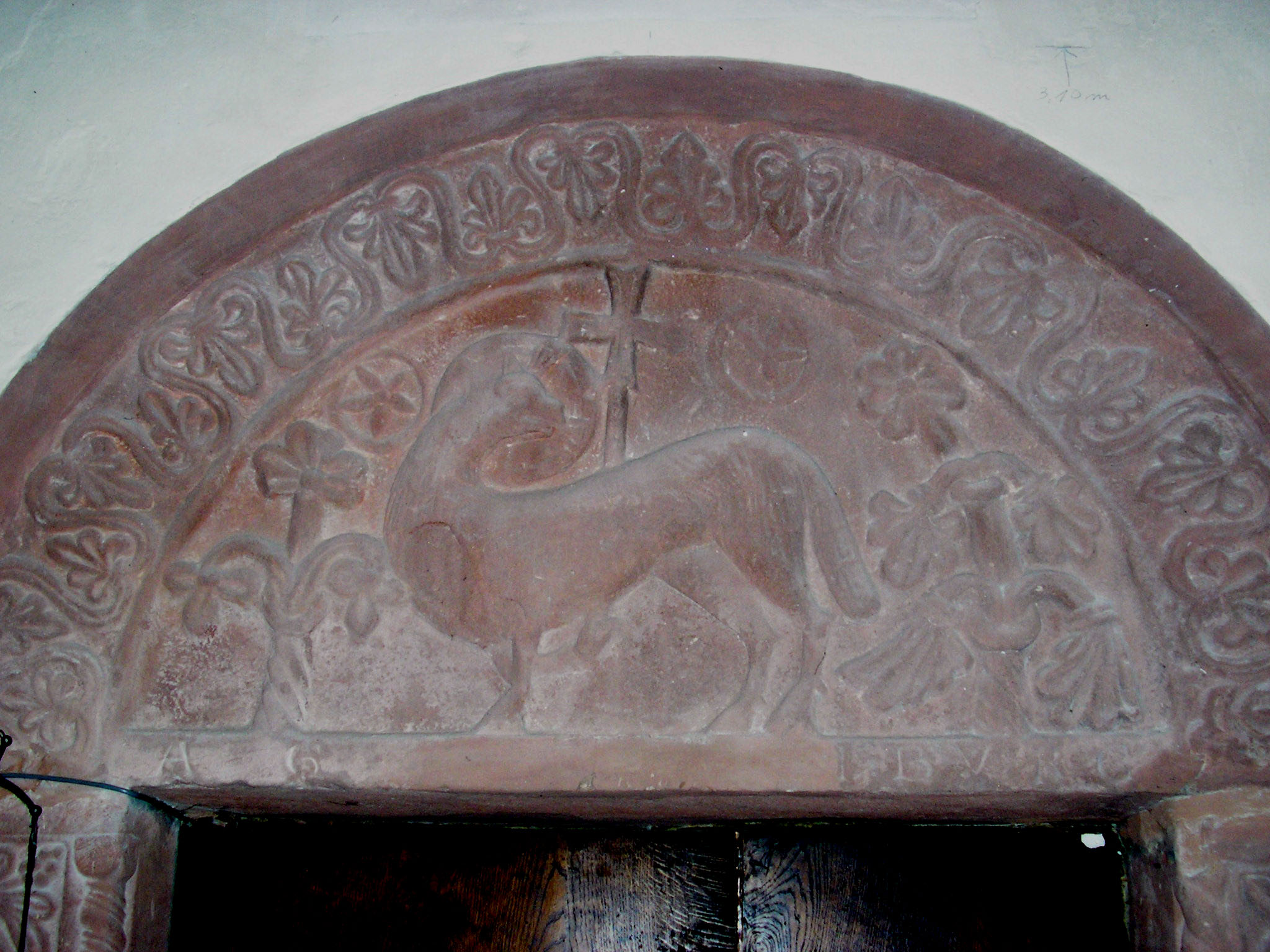 Bas-relief St Jean Baptiste (St Jean Saverne, Bas Rhin)